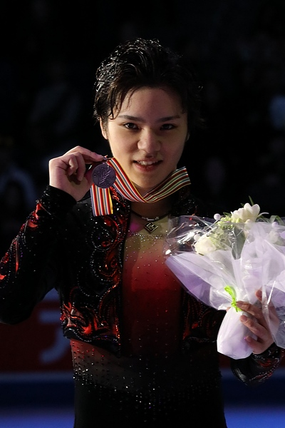 Shoma Uno (2nd) at the 2017 World Championships.